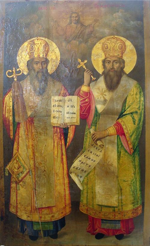 Sts. Cyril and Mathidius icon, painted by macedonian zograf Dimitar Papradiški